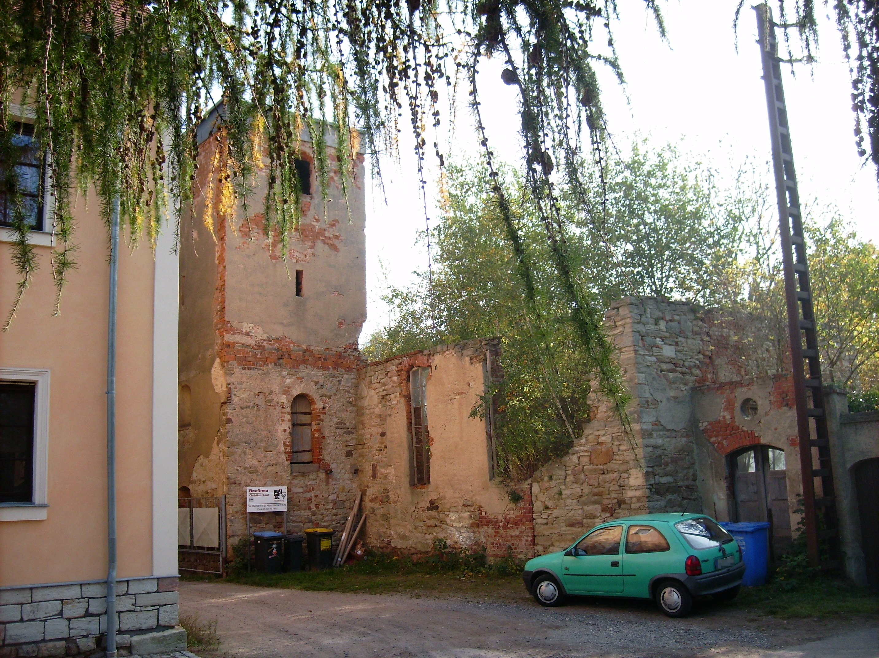 Ruin of St. James Church in Oberthau (Ermlitz, Schkopau municipality, district of Saalekreis, Saxony-Anhalt)